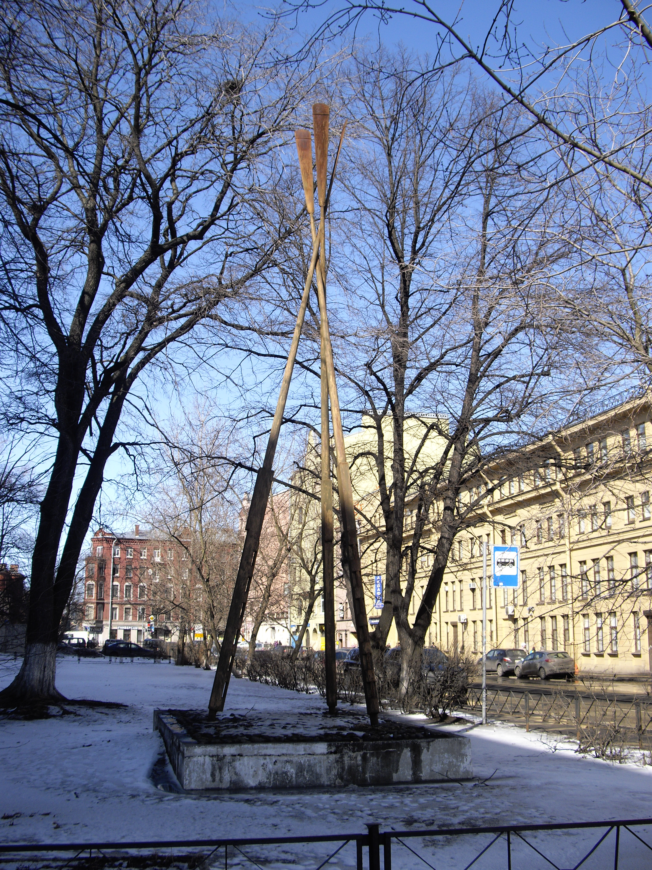 Pionerskaya street in Saint Petersburg. The three ours - the monument to oursmen of the Russian galley fleet.